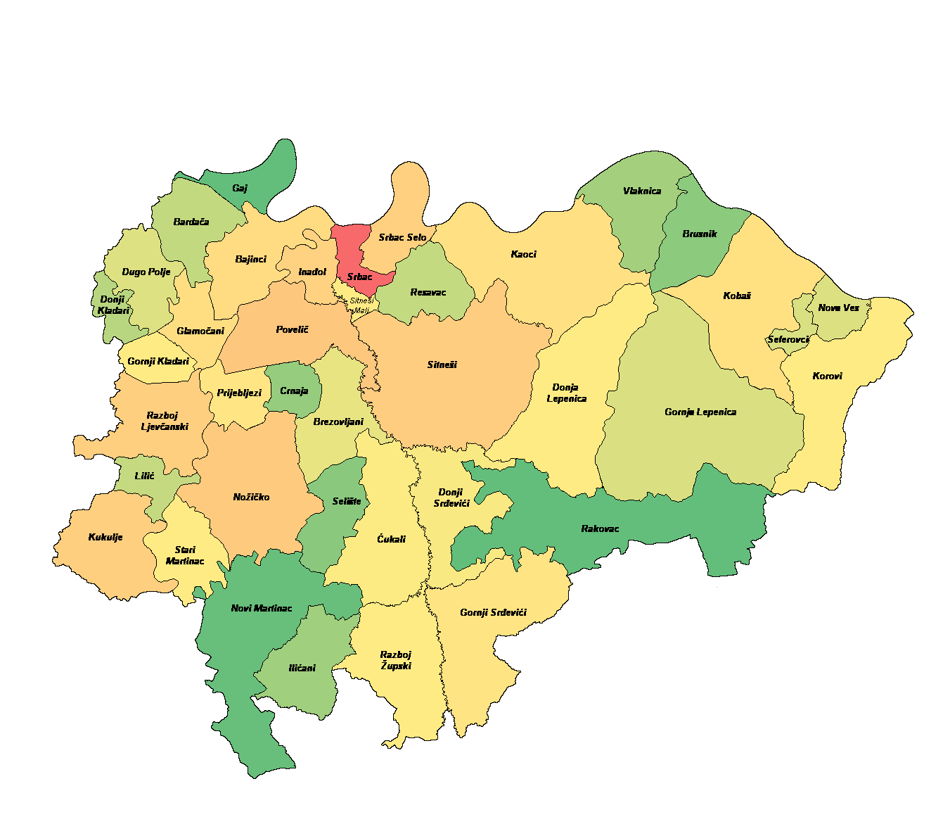 sbac